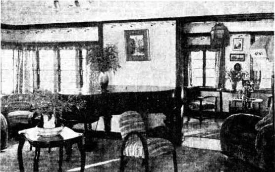 Art deco, Spanish Mission architecture, Flats, Apartments, Brisbane, Queensland